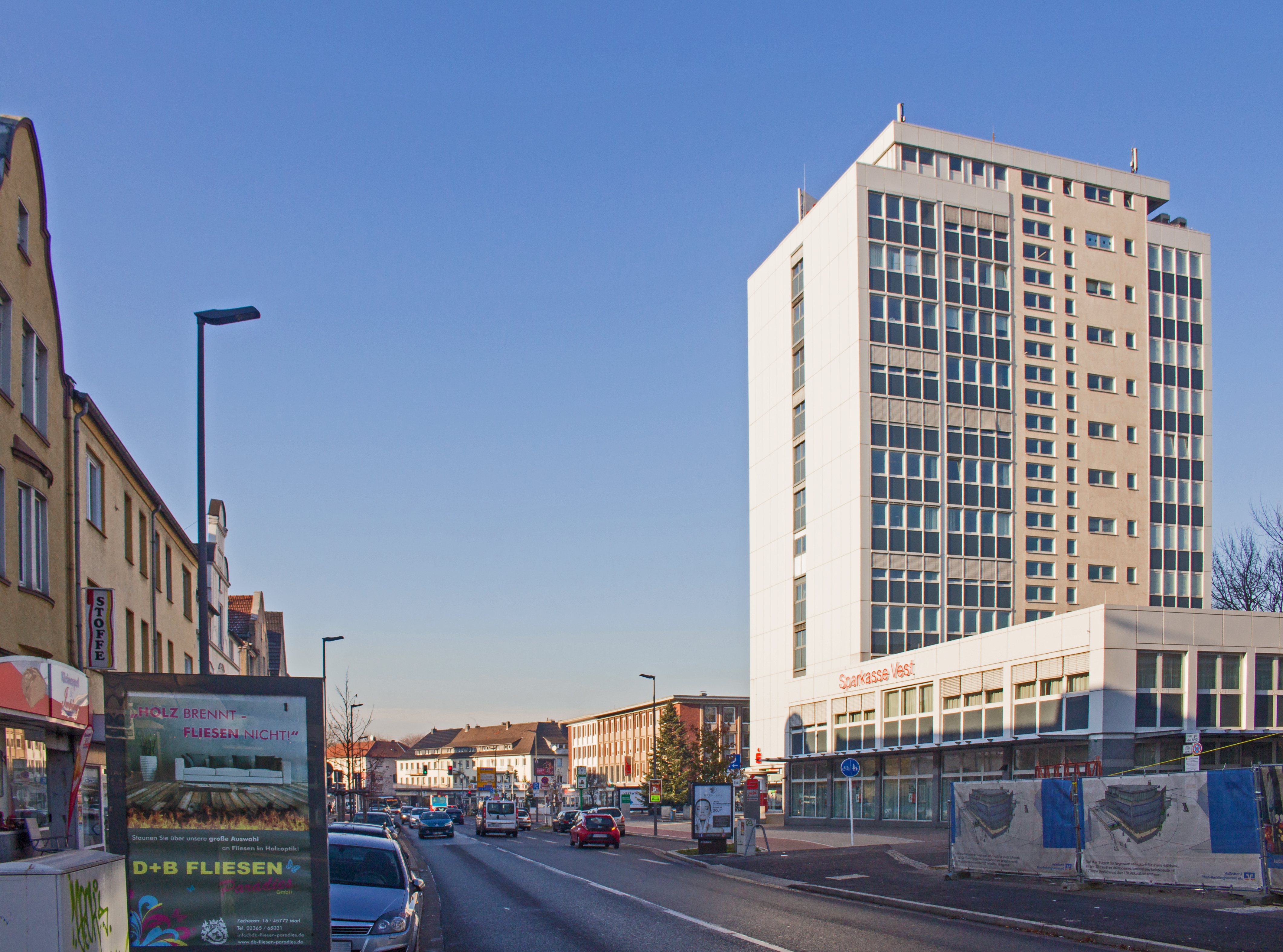 village centre of Hüls, Victoriastraße - Marl, North Rhine-Westphalia, Germany